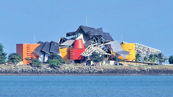 Biodiversidad Museum